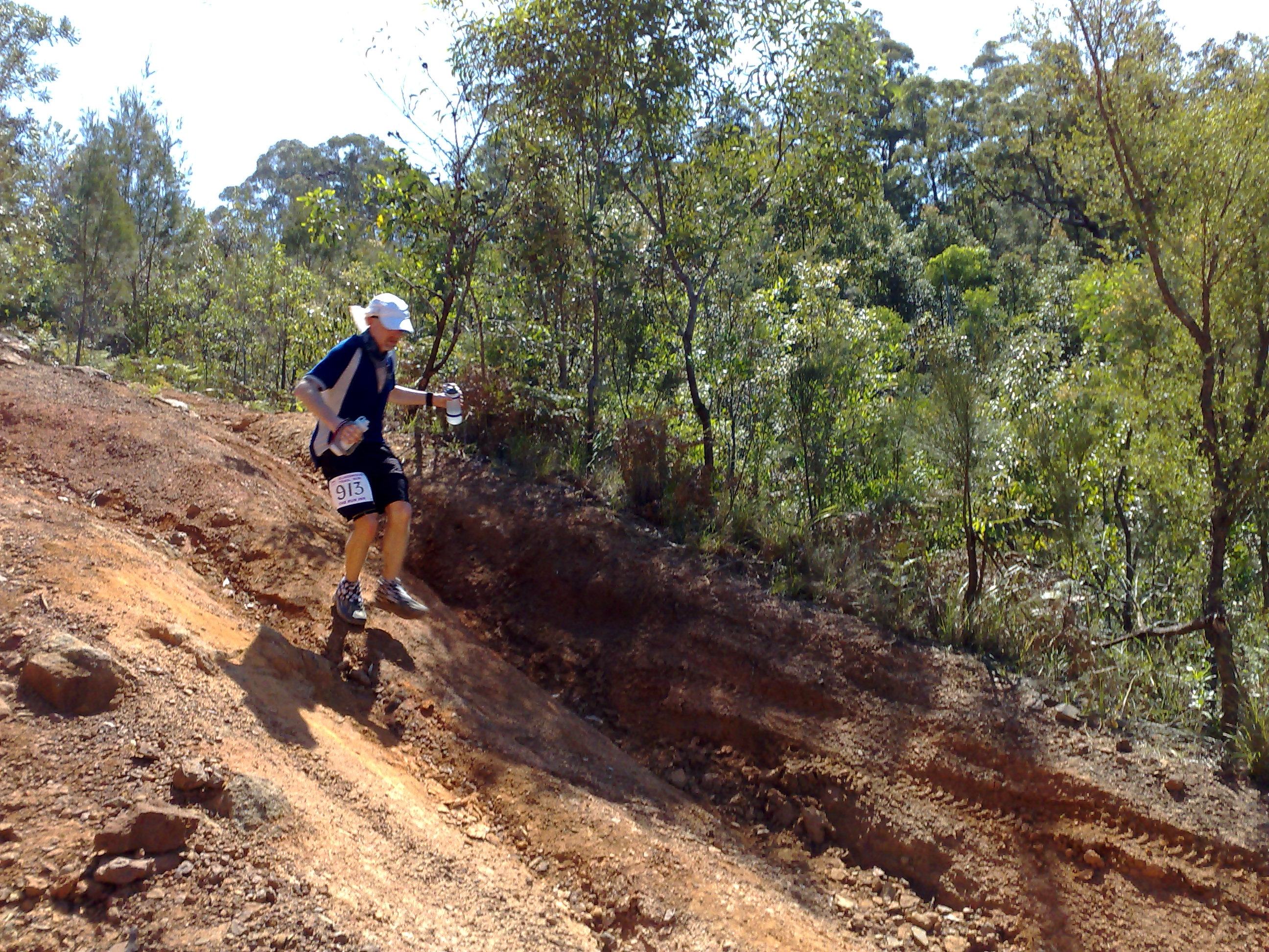 A mountain runner during a muontain running race13/09/2008 Glasshouse 100mile, 2008 - Powerlines